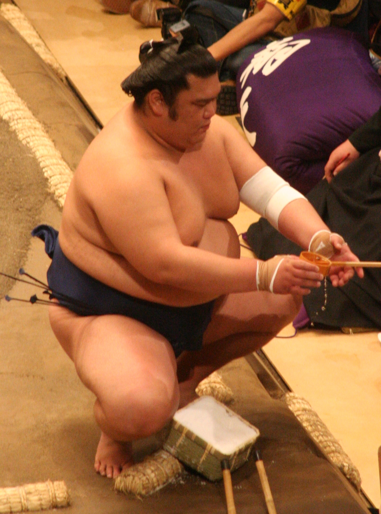 First day of 2009 May Sumo Tournament in Tokyo, Japan - Kimurayama